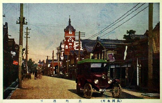 Postcard of the Omote-machi Street in Nagaoka City